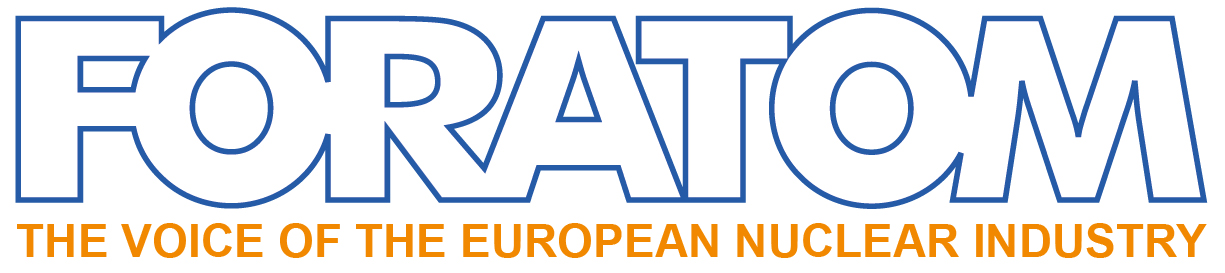 The official logo of FORATOM